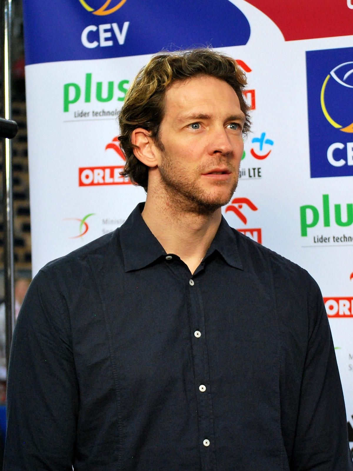 FIVB World Championship European Qualification Women Łódź January 2014. Stephane Antiga - volleyball player and coach from France